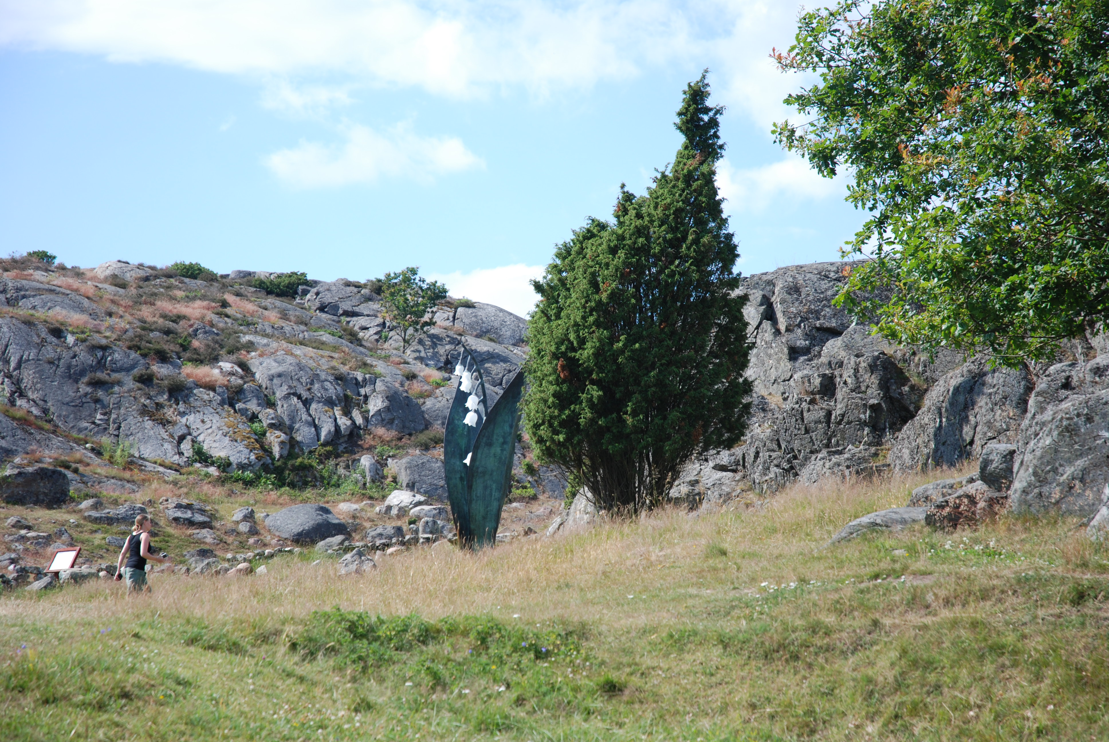 Klara Kristalova´s Liljekonvalj (Lilly of the valley) in the Skulptur i Pilane Sculpture Park in Sweden. The sculpture is to be located in Falkenberg, Sweden, from September, 2011